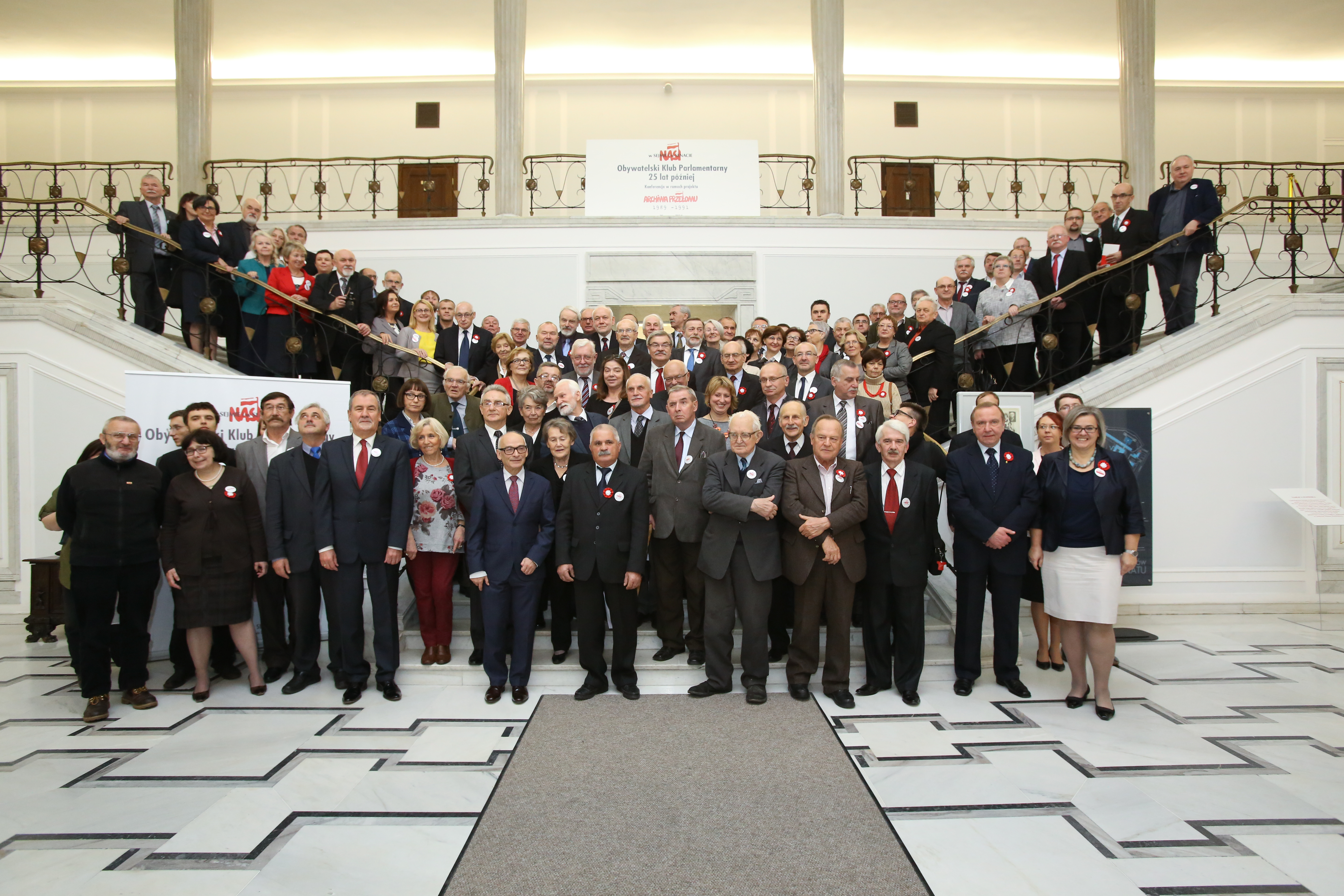 Participants of the conference "Our people in the Sejm and the Senate - Civic Parliamentary Causus 25 years later"